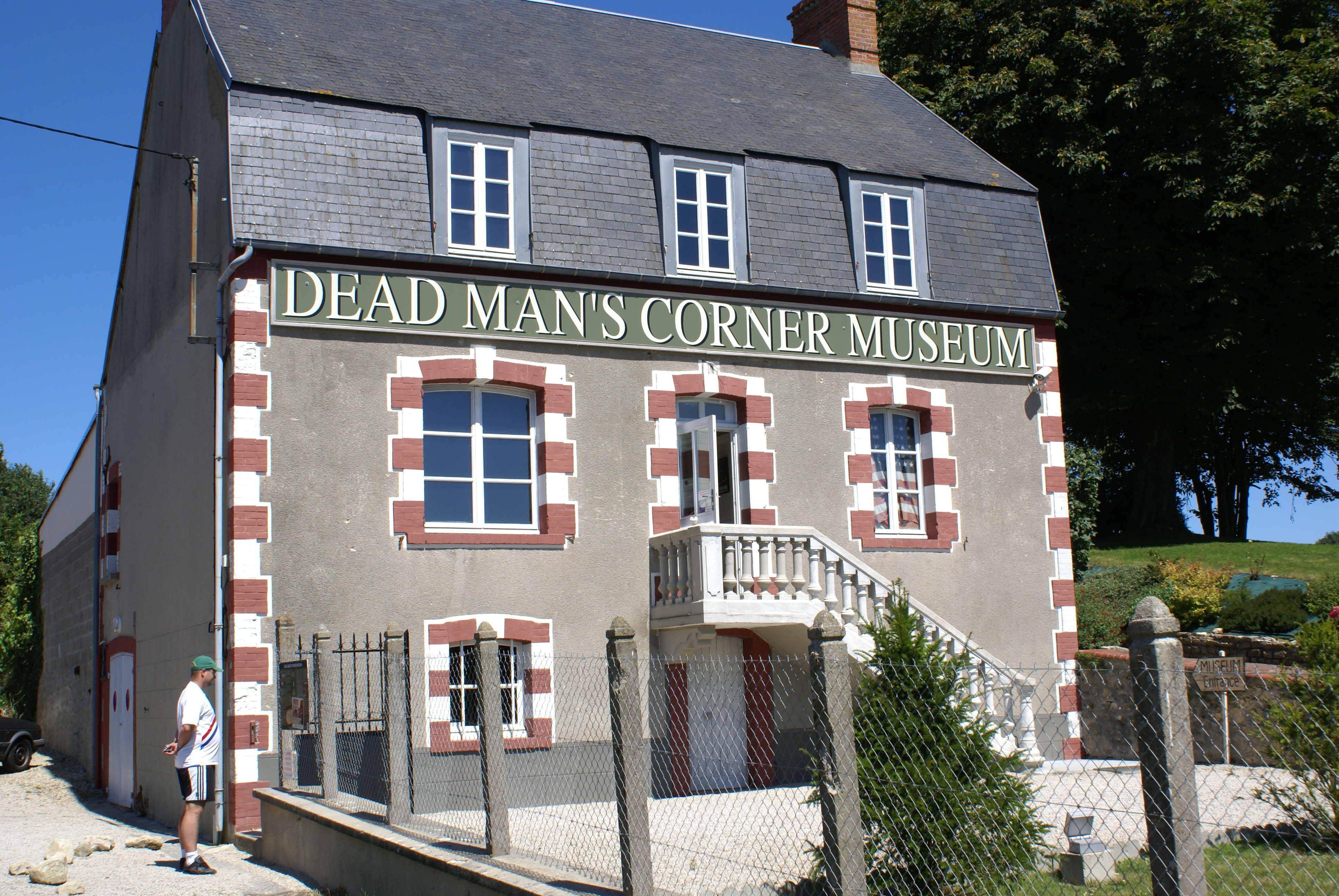 Dead Man's Corner Museum